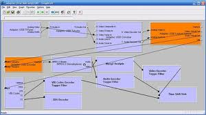 Filtro DirectShow generado en GraphStudio